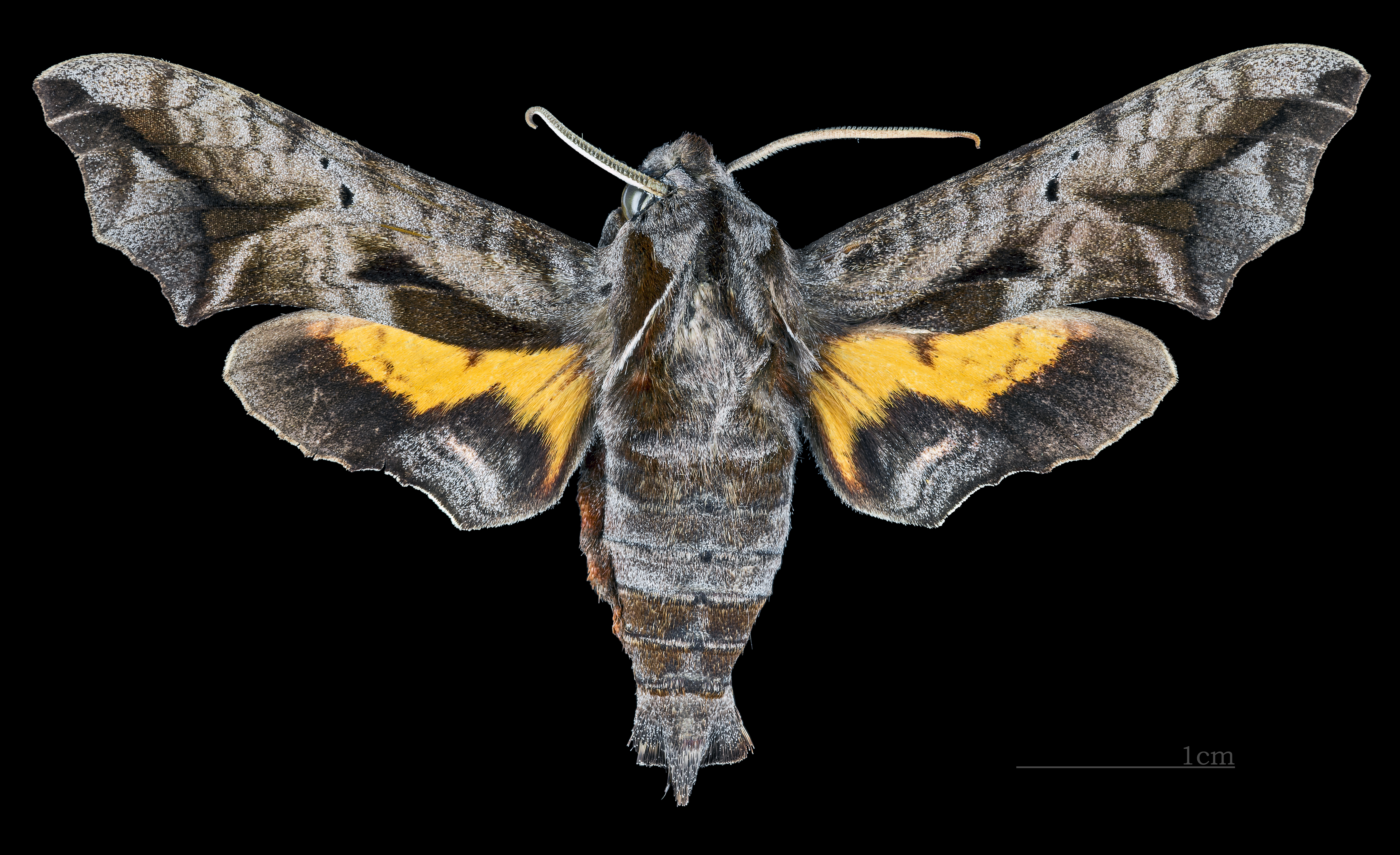 Nyceryx continua - Dorsal side Collection of the Mathematician Laurent Schwartz